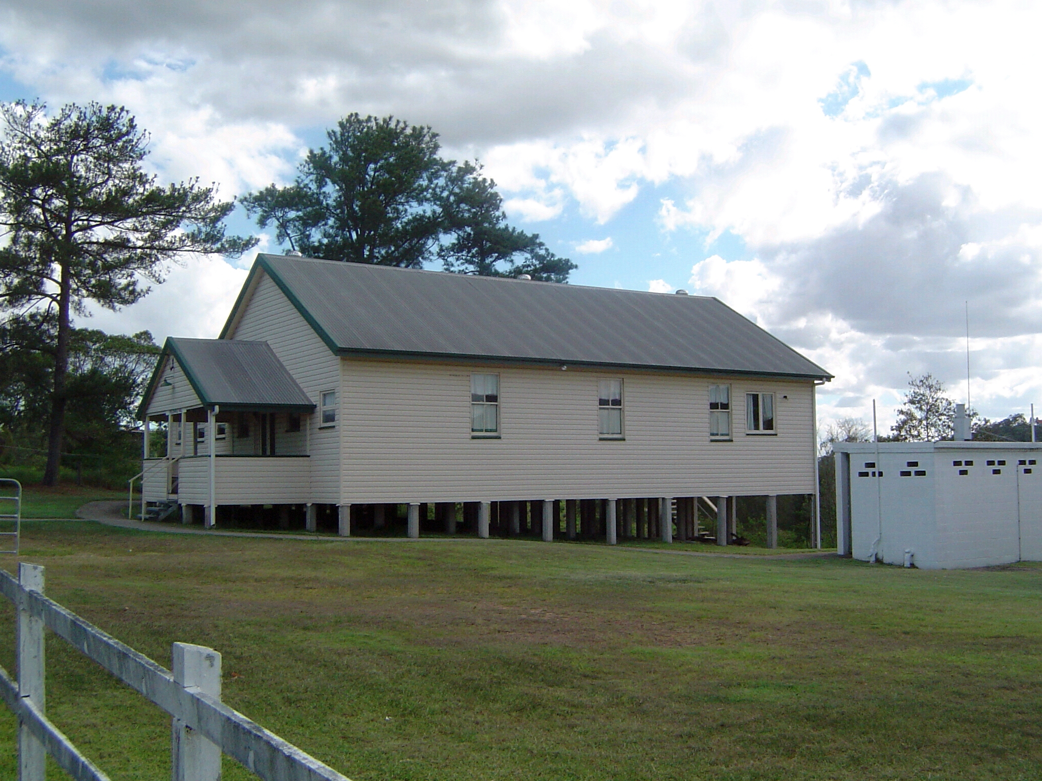 Photo of Pullenvale Hall at Pullenvale, Brisbane, Queensland, Australia.